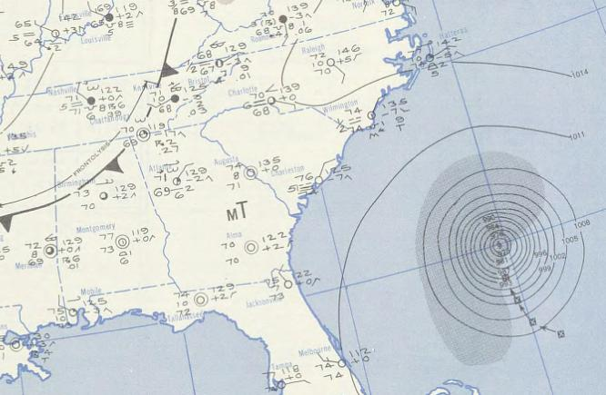 Surface weather analysis of Hurricane Able on 19 August 1950.